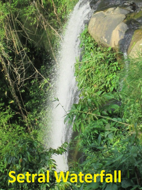 Setrai Waterfall, Durgachowmuhani block, Dhalai district, Tripura, India